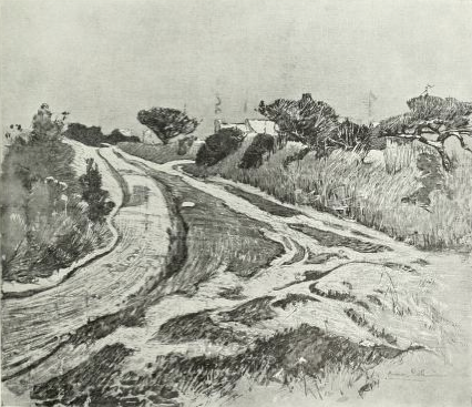 Florence Esté (1860-1926)'s work The First Snow was exhibited in the Armory Show in 1913. This is a black-and-white photograph of the original color artwork.